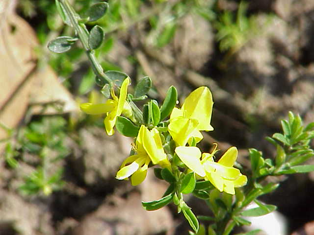 Species: Genista pilosa Family: Fabaceae Image No. 3